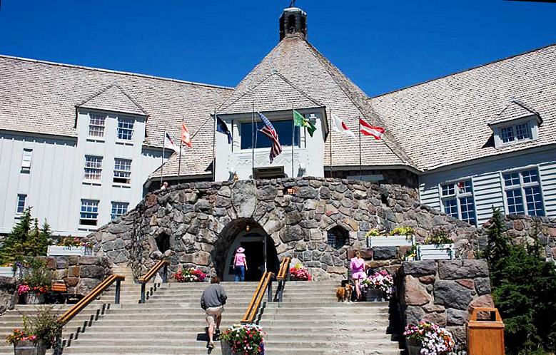 The main entrance of Timberline Lodge, on Mount Hood, Oregon, United States, in summer.